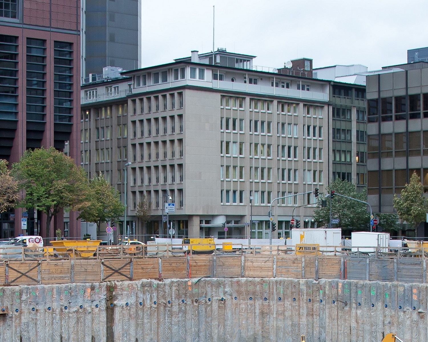 Headquarters of Metzler Bank in Frankfurt, Germany